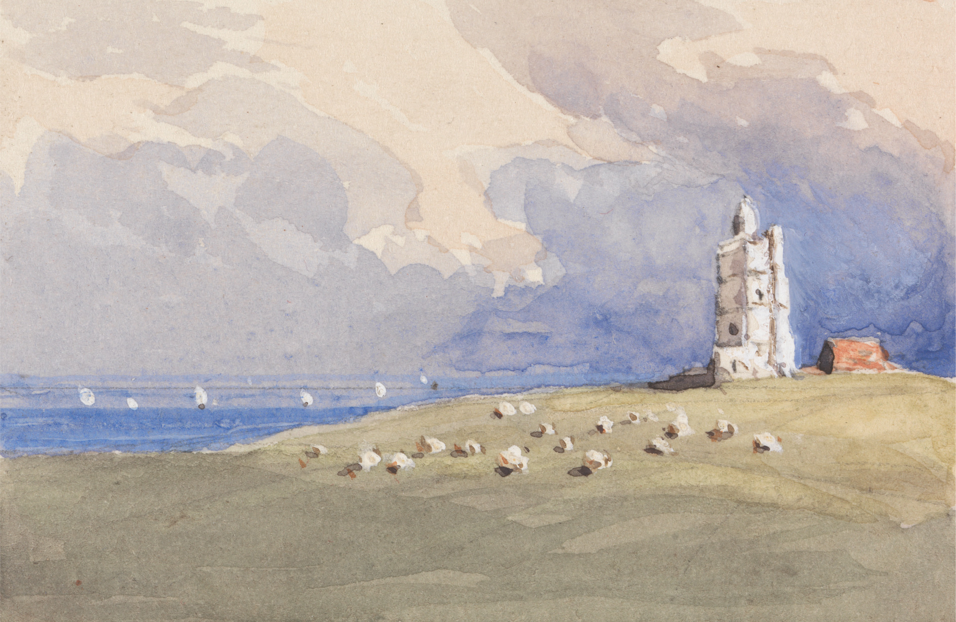 "North Foreland Lighthouse," by George Jackson (active 1839-1844. Graphite, pen, ink, and watercolour heightened with gouache. 2 1/8 in. x 3 1/4in. (5.4 cm x 8.3 cm). Courtesy of the Paul Mellon Collection, Yale Center for British Art, Yale University, New Haven, Connecticut.